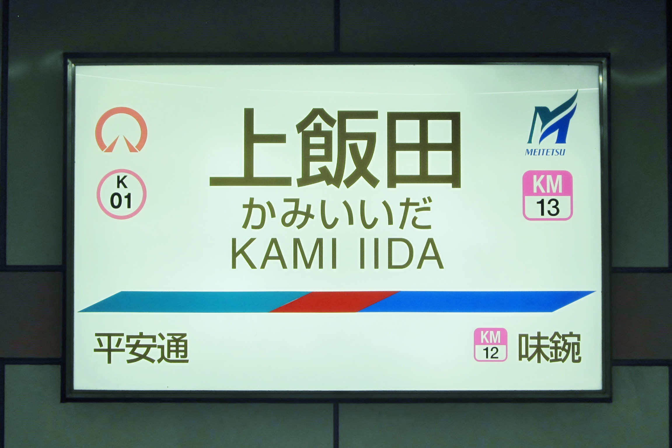 Nagoya Railroad Komaiki Line / Transportation Bureau City of Nagoya, Nagoya Municipal Subway Kamiiida Line Kami Iida Station signboard